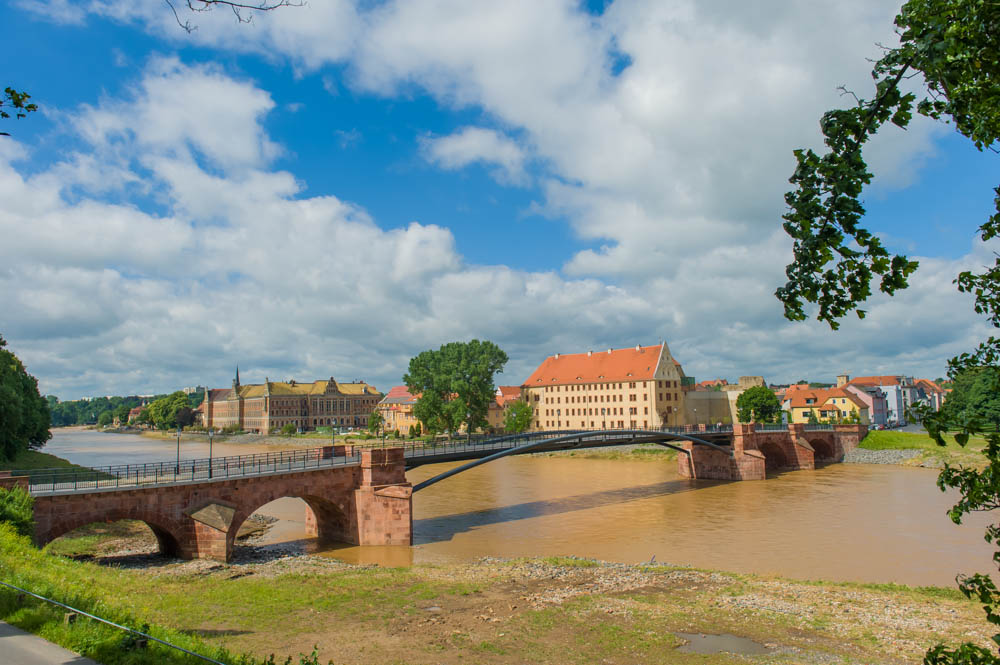 Pöppelmann Bridge Grimma